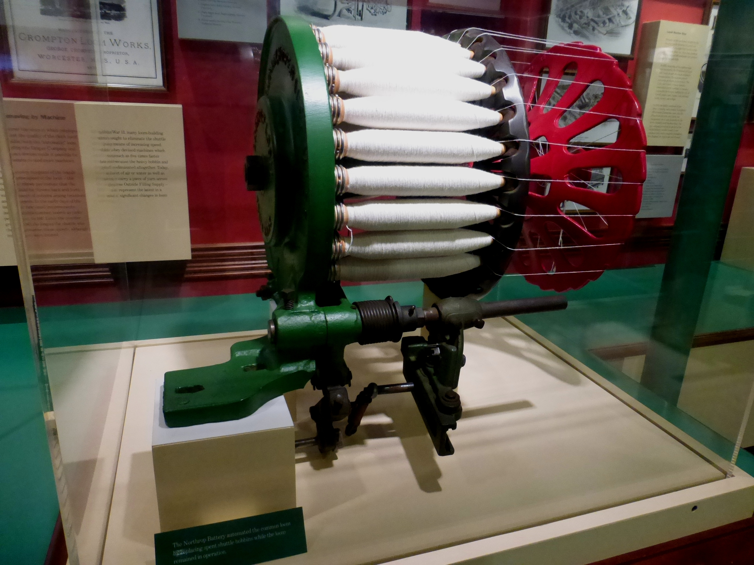 Description from U.S. National Park Service: The Northrop Battery automated the common loom by replacing spent shuttle bobbins while the loom remained in operation.